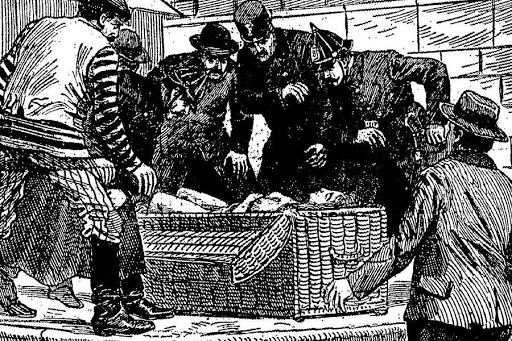 Elsa the Magnate in basket trunk